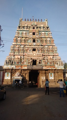 Natchiyarkovil srinivasaperumal temple நாச்சியார்கோயில் சீனிவாசப்பெருமாள் கோயில்